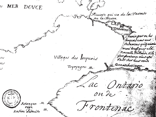 Rouge Trail Map 1673 by Louis Jolliet ca. 1673 Map ascribed to Louis Jolliet (after 1673) showing Ganatchakiagon and the Rouge trail